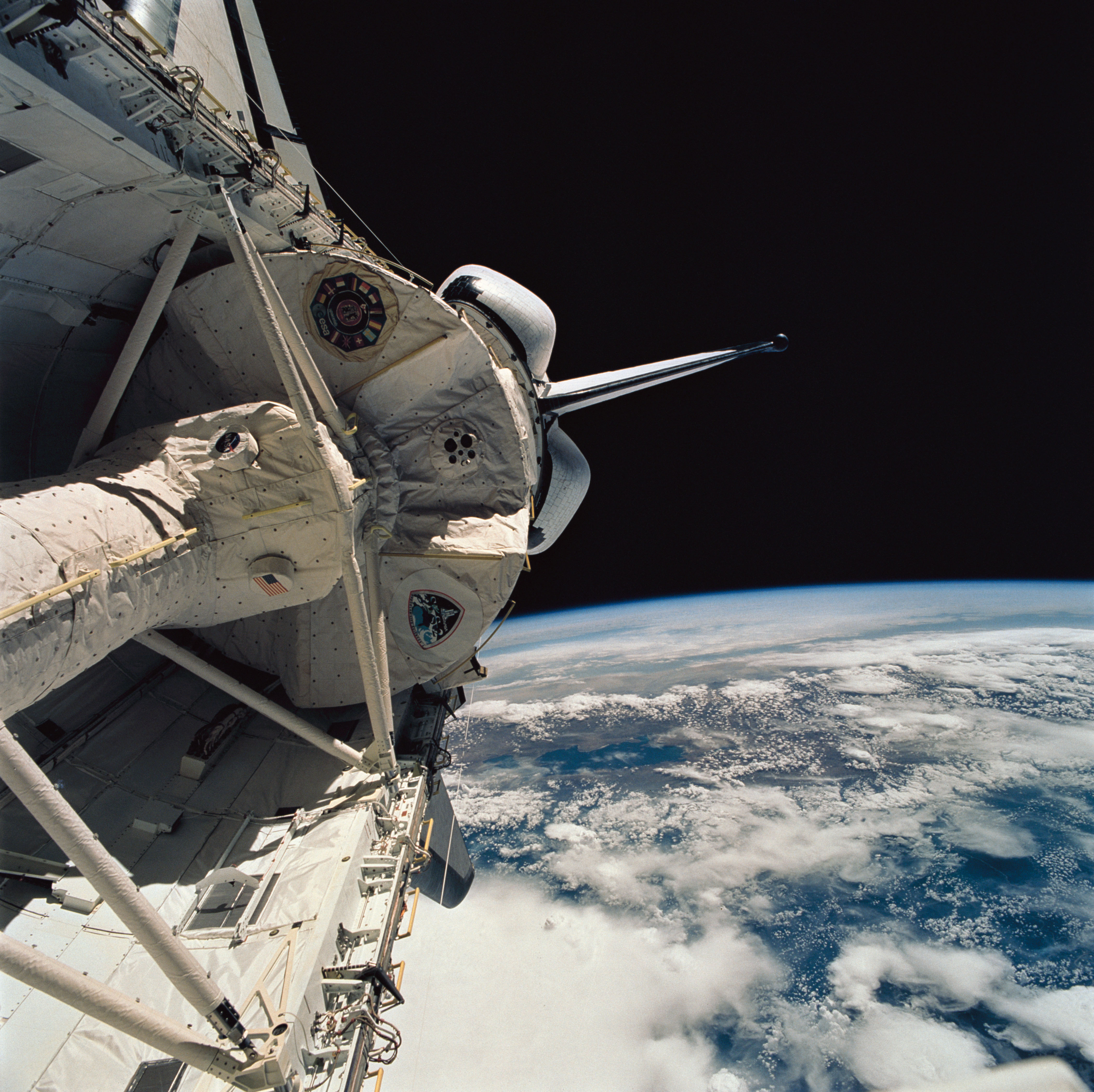 View of Columbia's payload bay showing the Spacelab on STS-58.